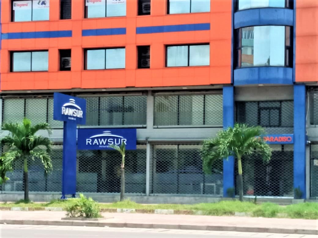 This is an image with the theme "Africa on the Move or Transport" from: Democratic Republic of the Congo